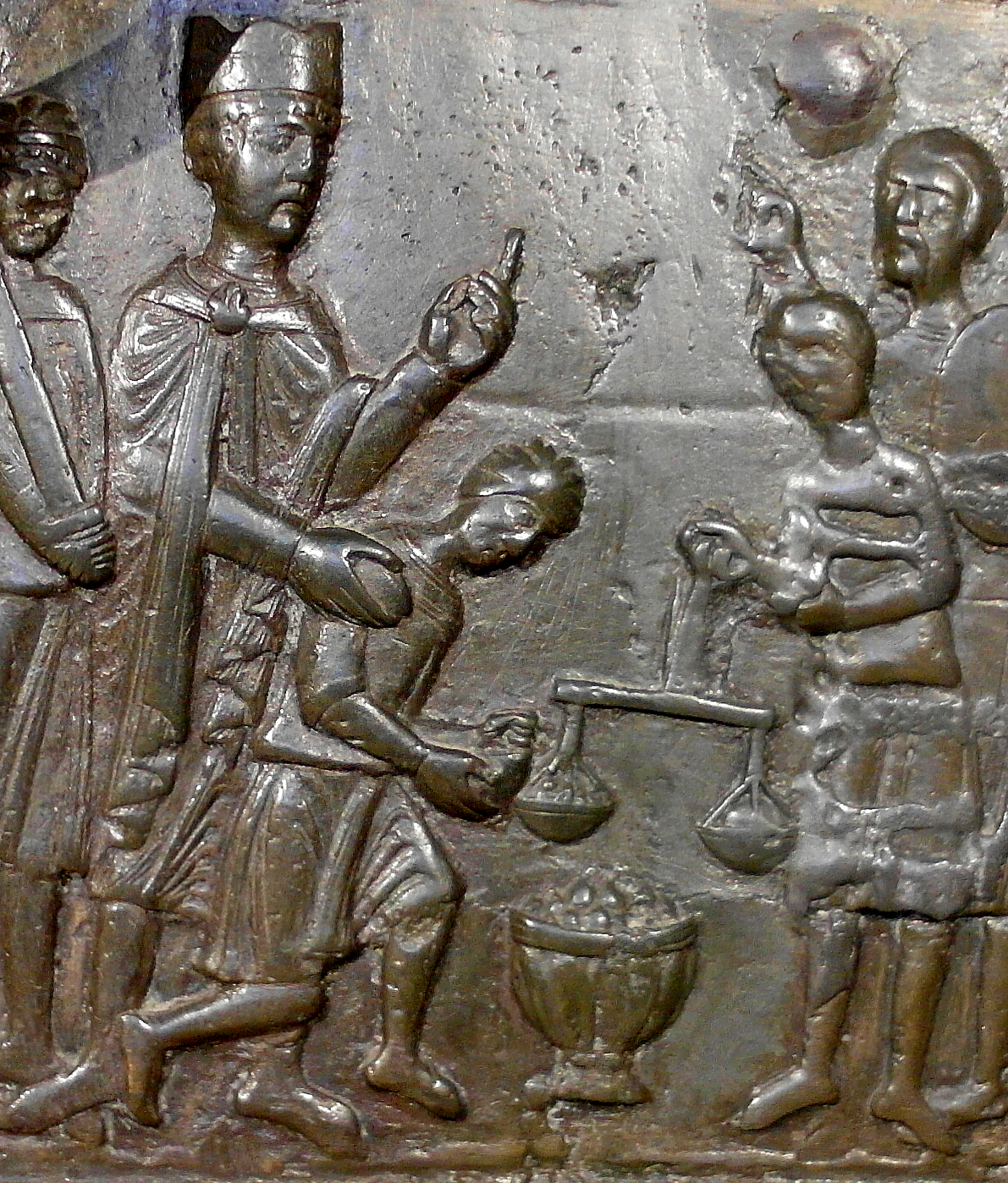 Bolesław I the Brave buys the corpse of Saint Adalbert of Prague from the Prussians, Gniezno Door ca. 1170